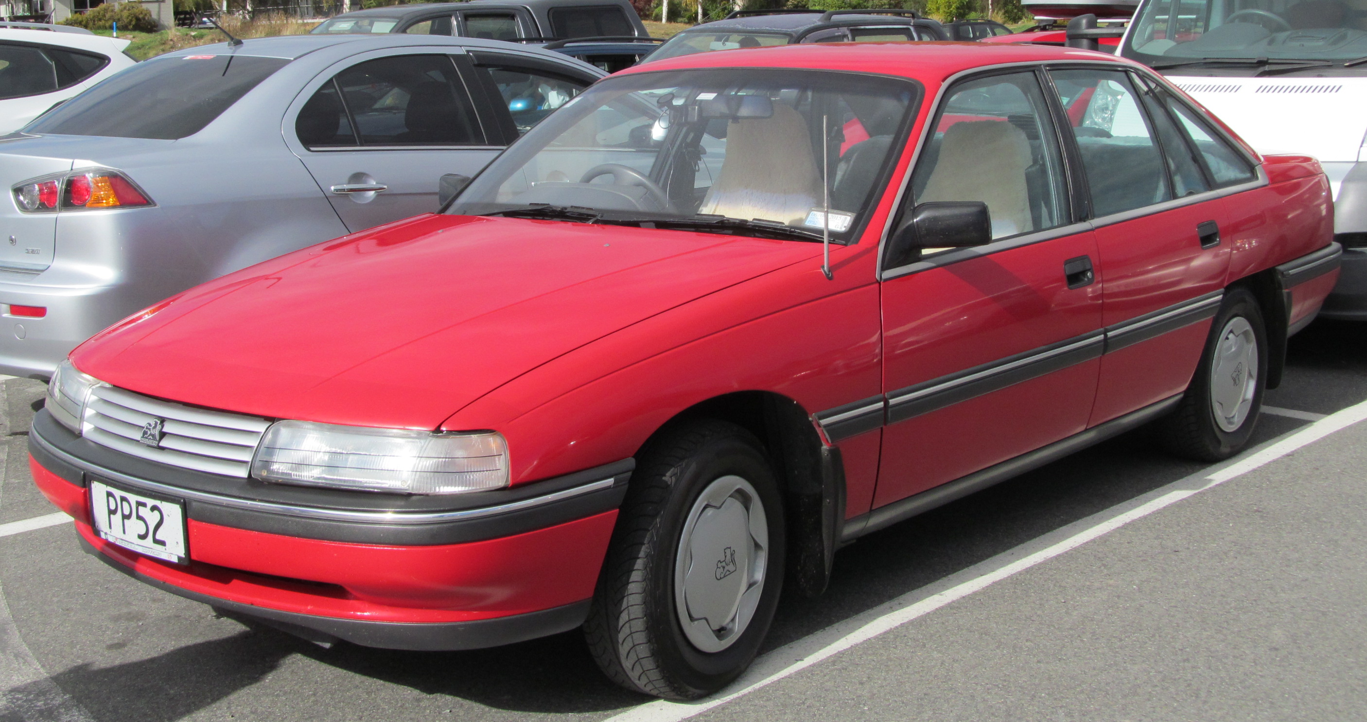 1990 Holden Commodore (VN) Executive sedan, photographed in New Zealand. This is the updated VN model sold from 1990 to 1991. Note: this is equivalent to the Berlina V6 in Australia as the VN Berlina from an Australian context was badged "Executive" in New Zealand.